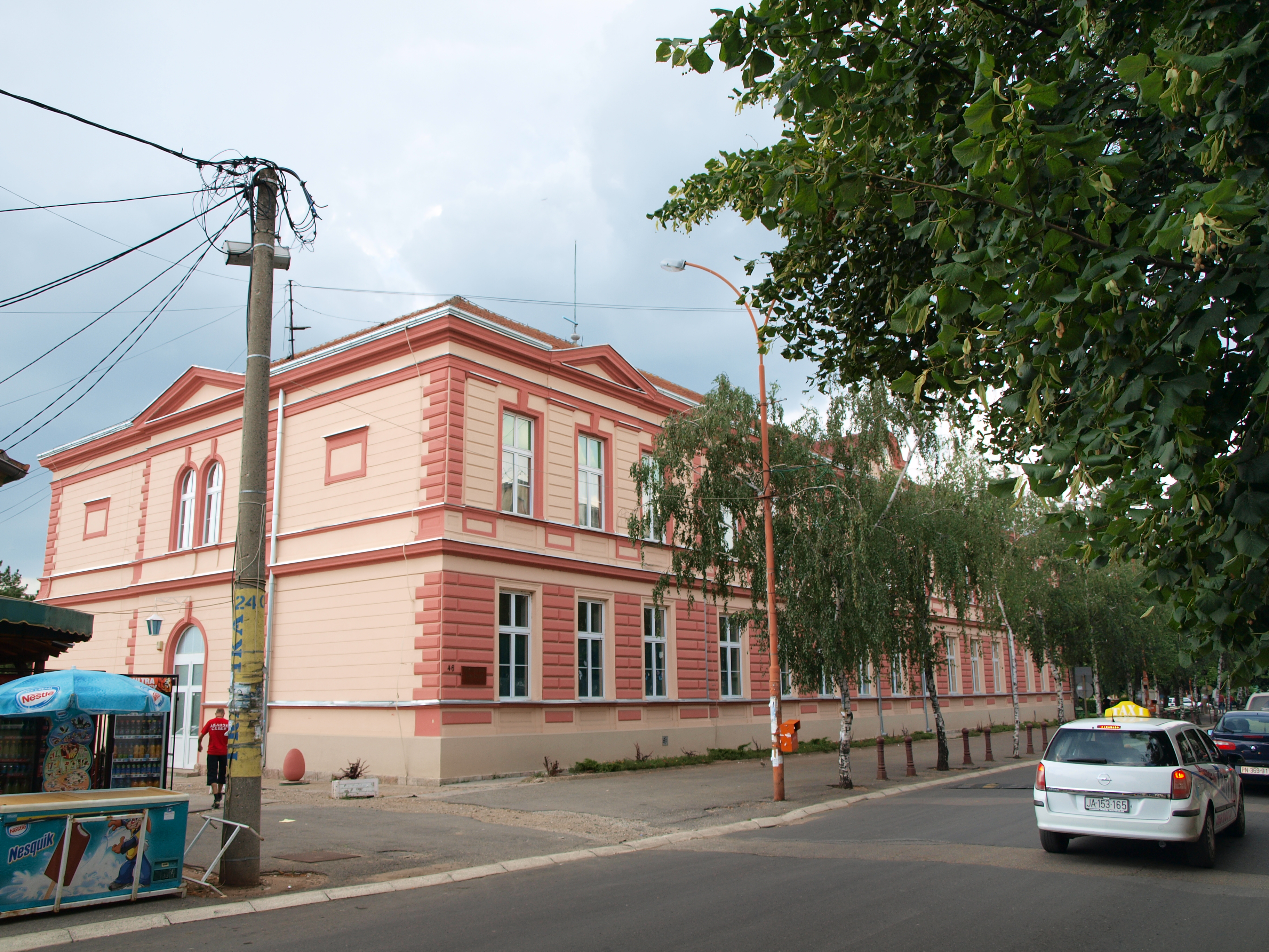 Primary school Đura Jakšić in Ćuprija, Serbia.